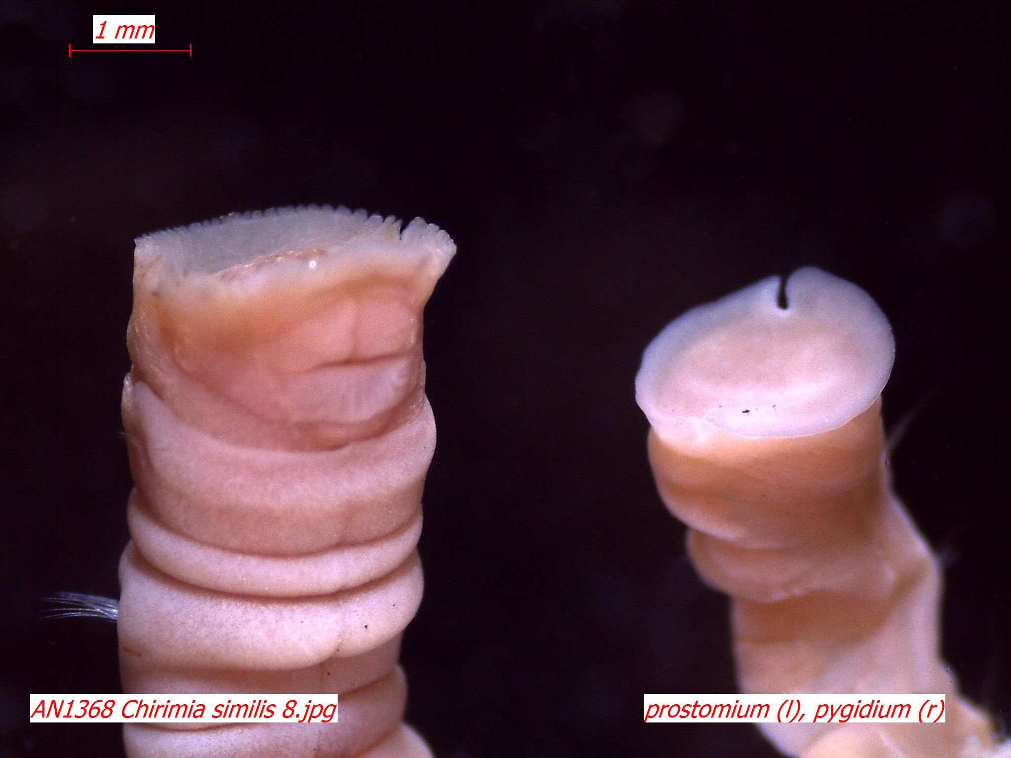 Collected from Puget Sound sediments and photographed by the Washington State Department of Ecology’s Marine Sediment Monitoring Team. For more information about this team’s work visit